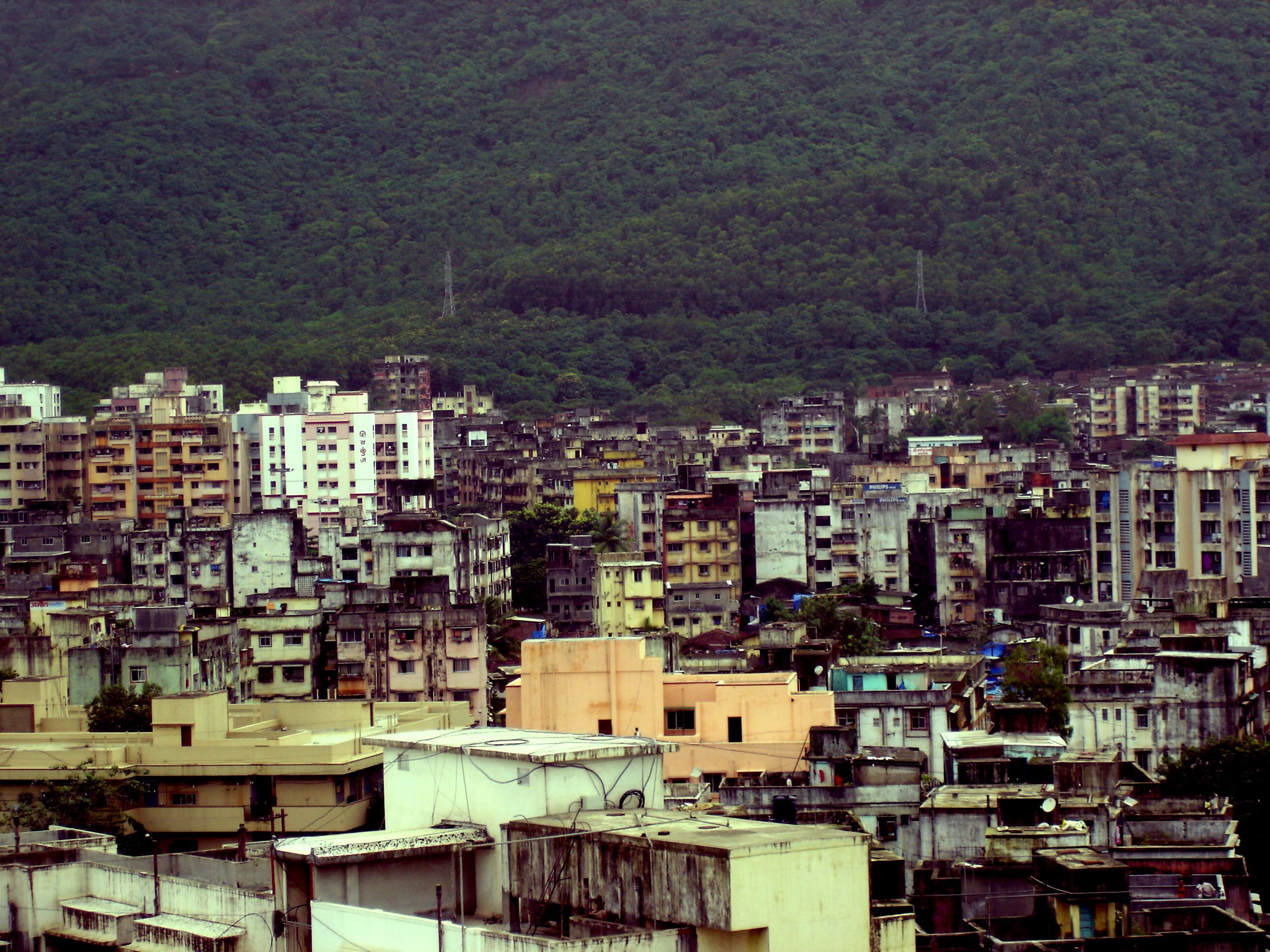 A concrete jungle below a real jungle in Thane, a suburb of mumbai